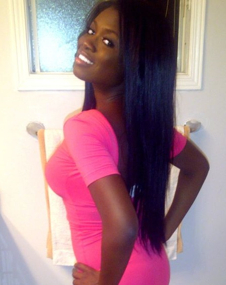 Full weave with natural hair closure